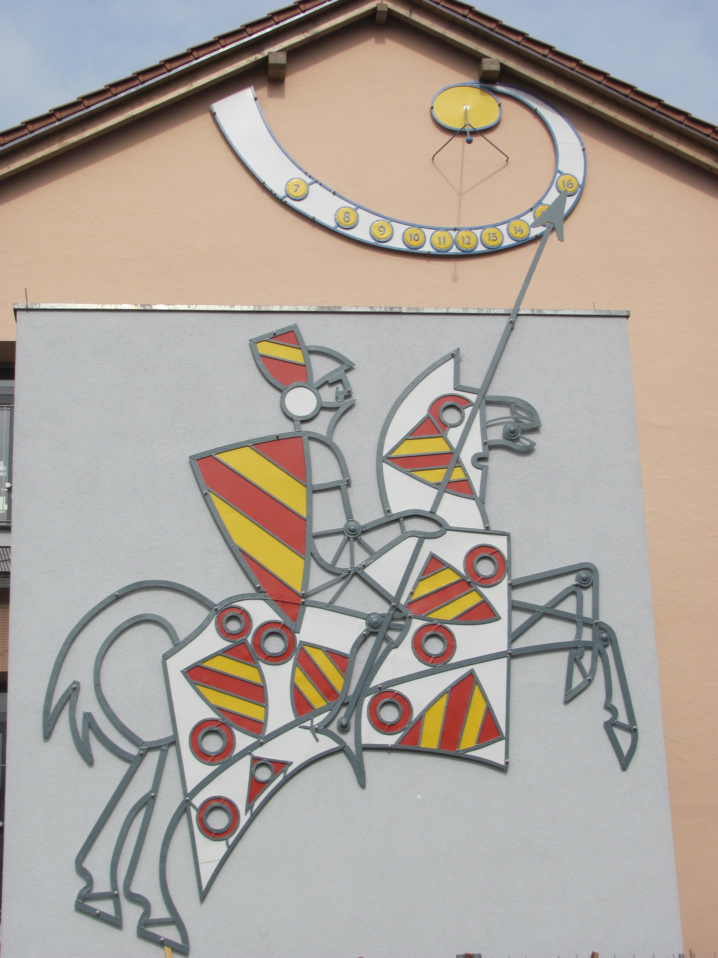 Knight in armour of Hutten family. Relief at Ulrich von Hutten-School, Schlüchtern, Germany